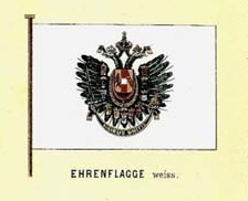 Austrian Ehrenflagge weiß, 'Merito_Navali' (flag of honour in white, for excellence in merchant navy). It was created in 1850 and was granted only once: Giovanni Visin, first circumnavigator under Austrian flag, was awarded on 4 July 1860.